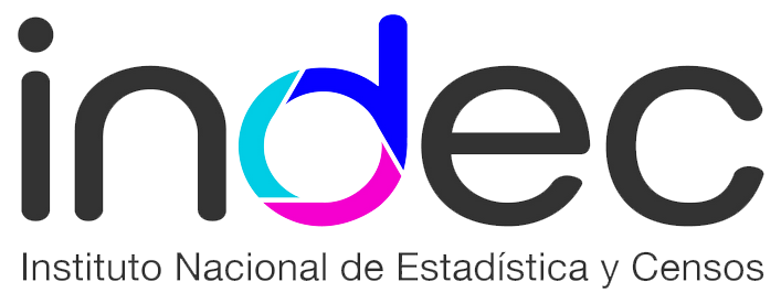 Logo of Indec (acronym for the National Institute of Statistics and Census of Argentina), the government agency responsible for the collection and processing of statistical data in that country.